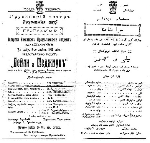 Poster of opera Leyla and Majnun (1908) by Uzeyir Hajibeyov. Tiflis